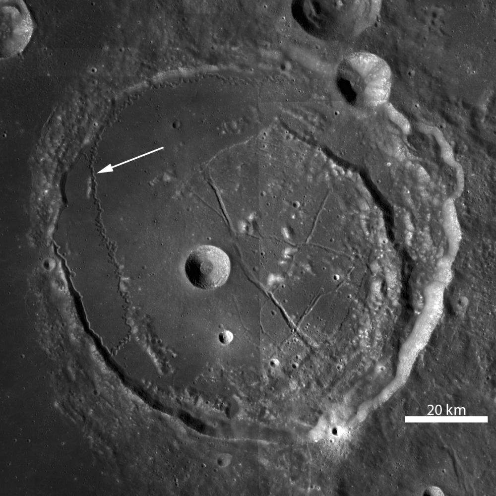 Posidonius Crater